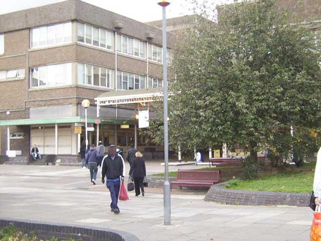 Teville Gate Downmarket shopping centre in Worthing. Many shops are now closed and boarded-up.